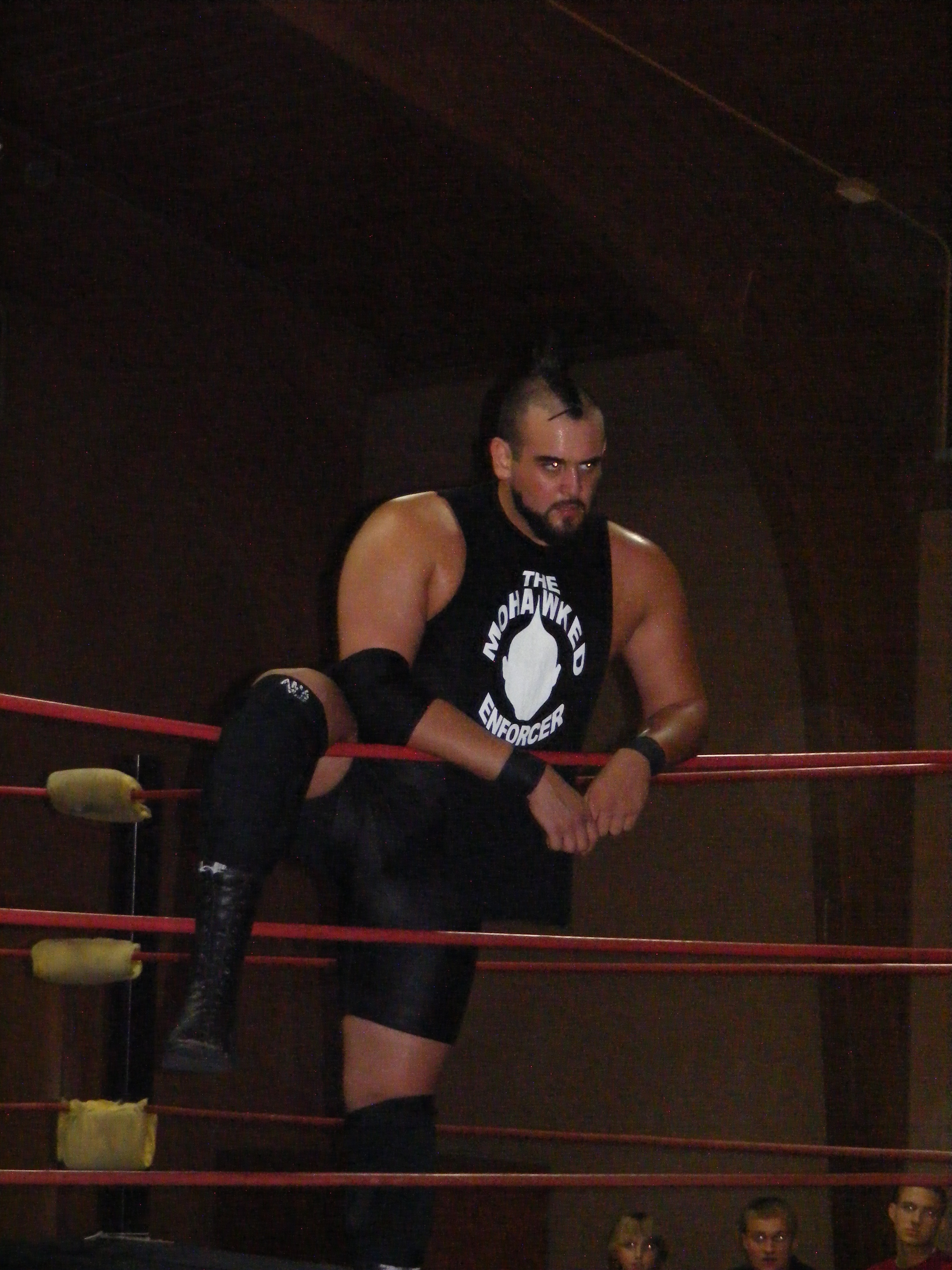 Professional wrestler "Big" Max Bauer in July 2008 at a NEPW show